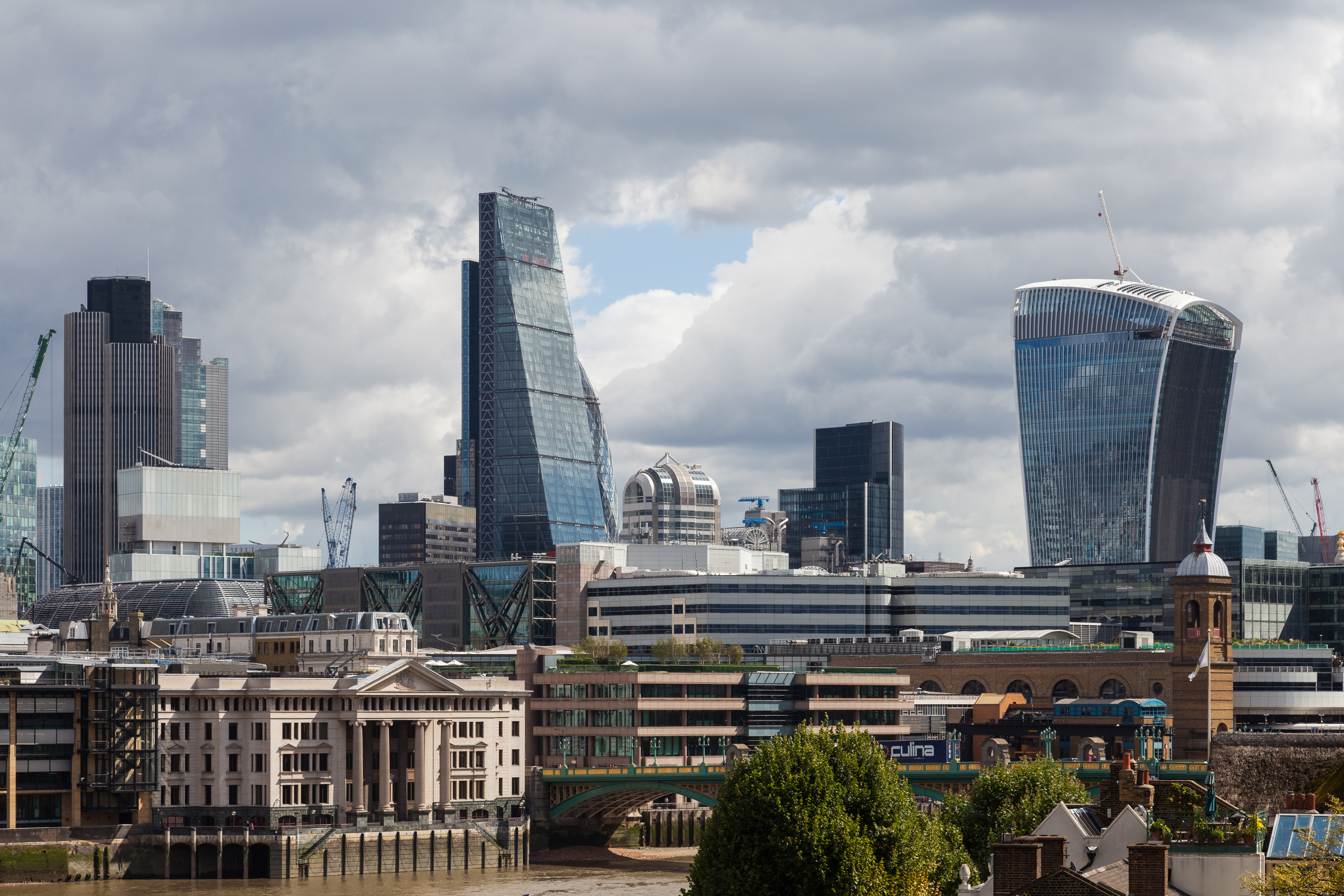 Tower 42, Walkie-Talkie y Leadenhall building, London, England